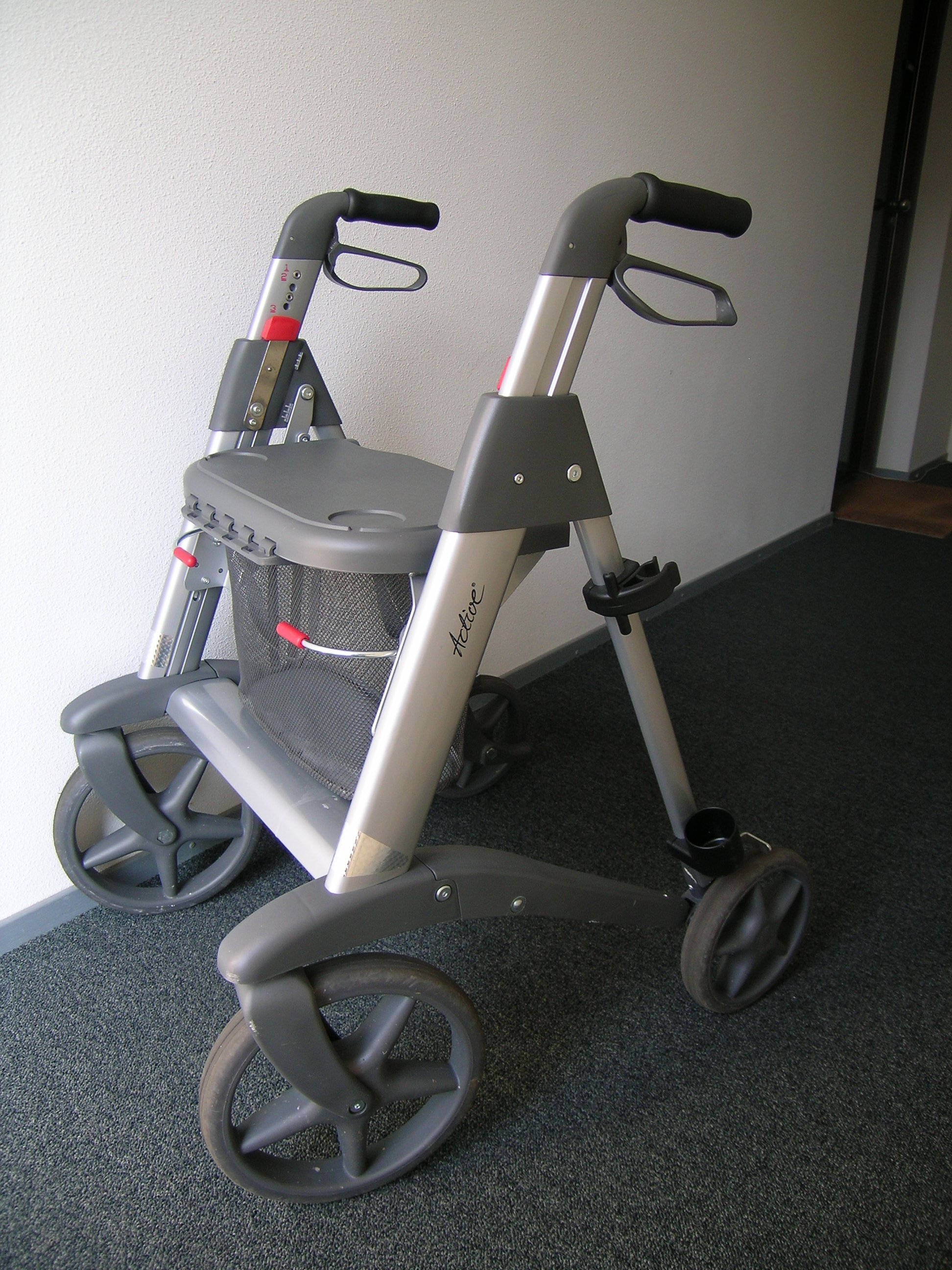 A walker (an aid for walking for people whose mobility and/or balance is limited.)